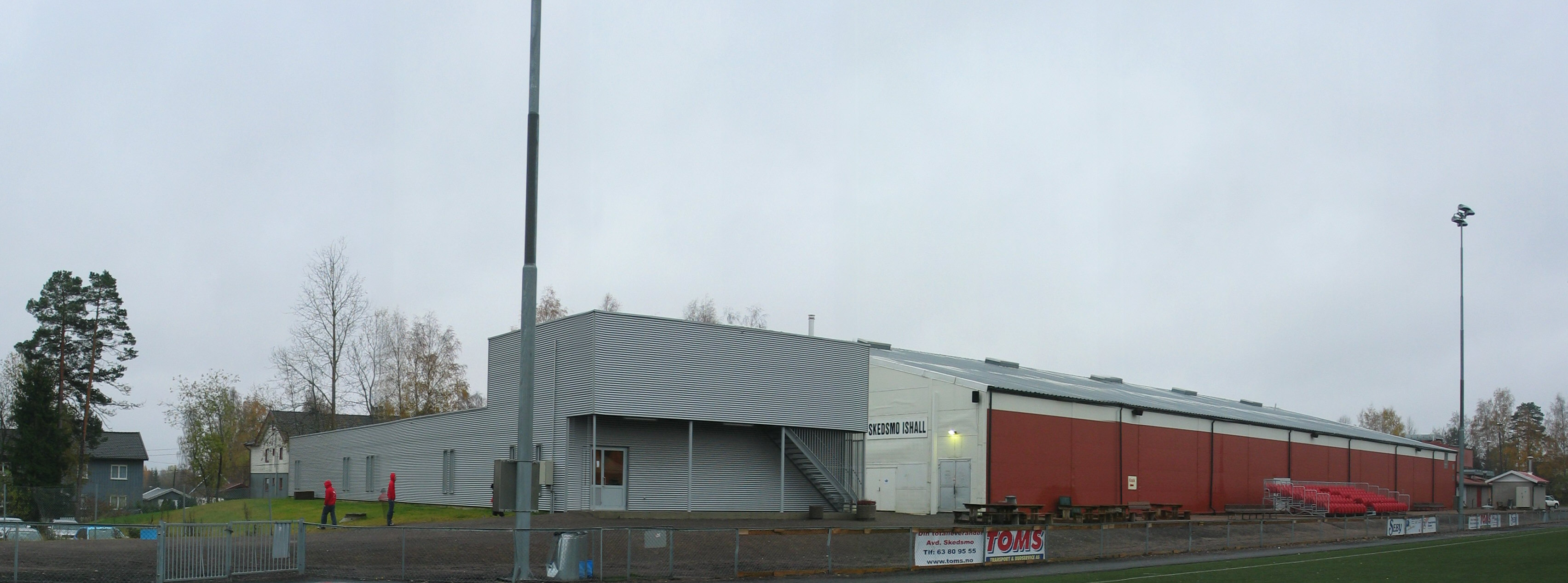 Outdoor picture of a hockey hall in Skedsmo, Norway.